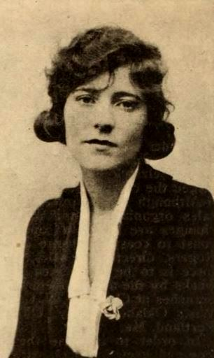 American screenwriter Sarah Y. Mason (1896 – 1980), on page 64 of the August 14, 1920 Exhibitors Herald.